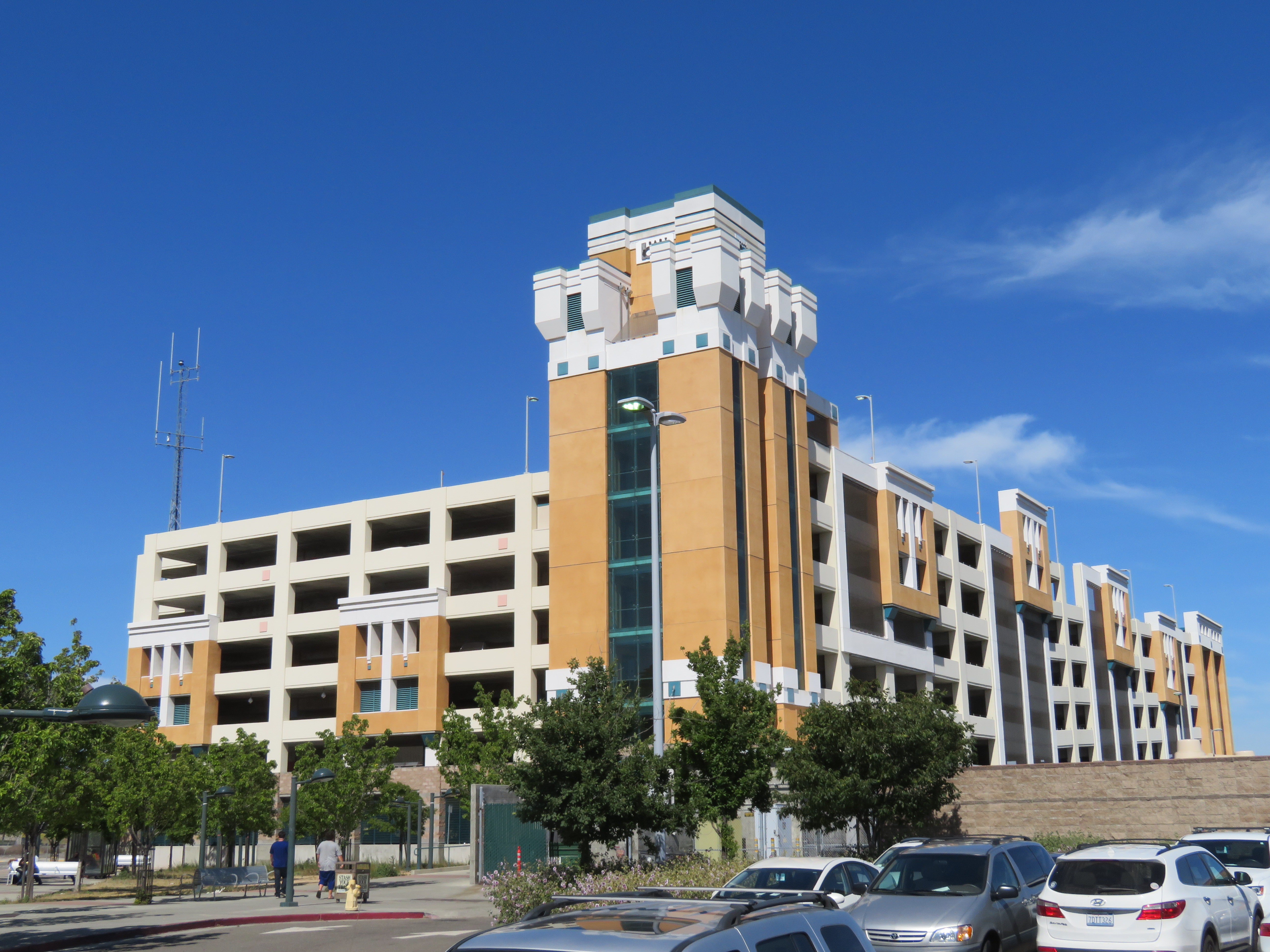 Parking garage at Dublin/Pleasanton station in May 2018